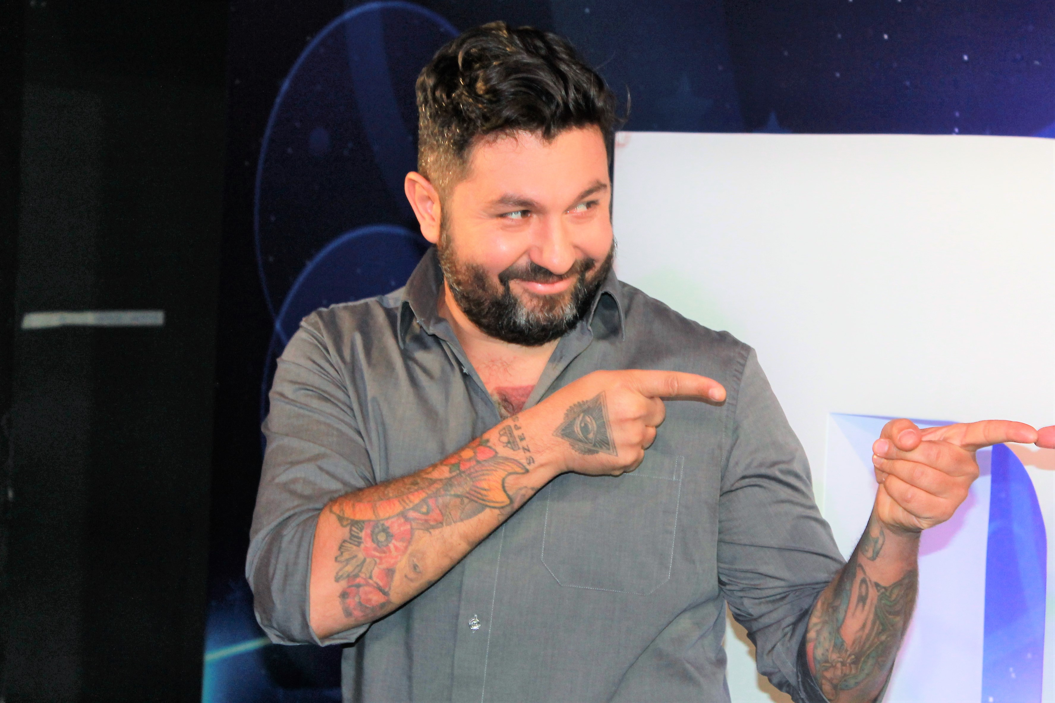 Misi Mező, one of the jurors of A Dal 2018